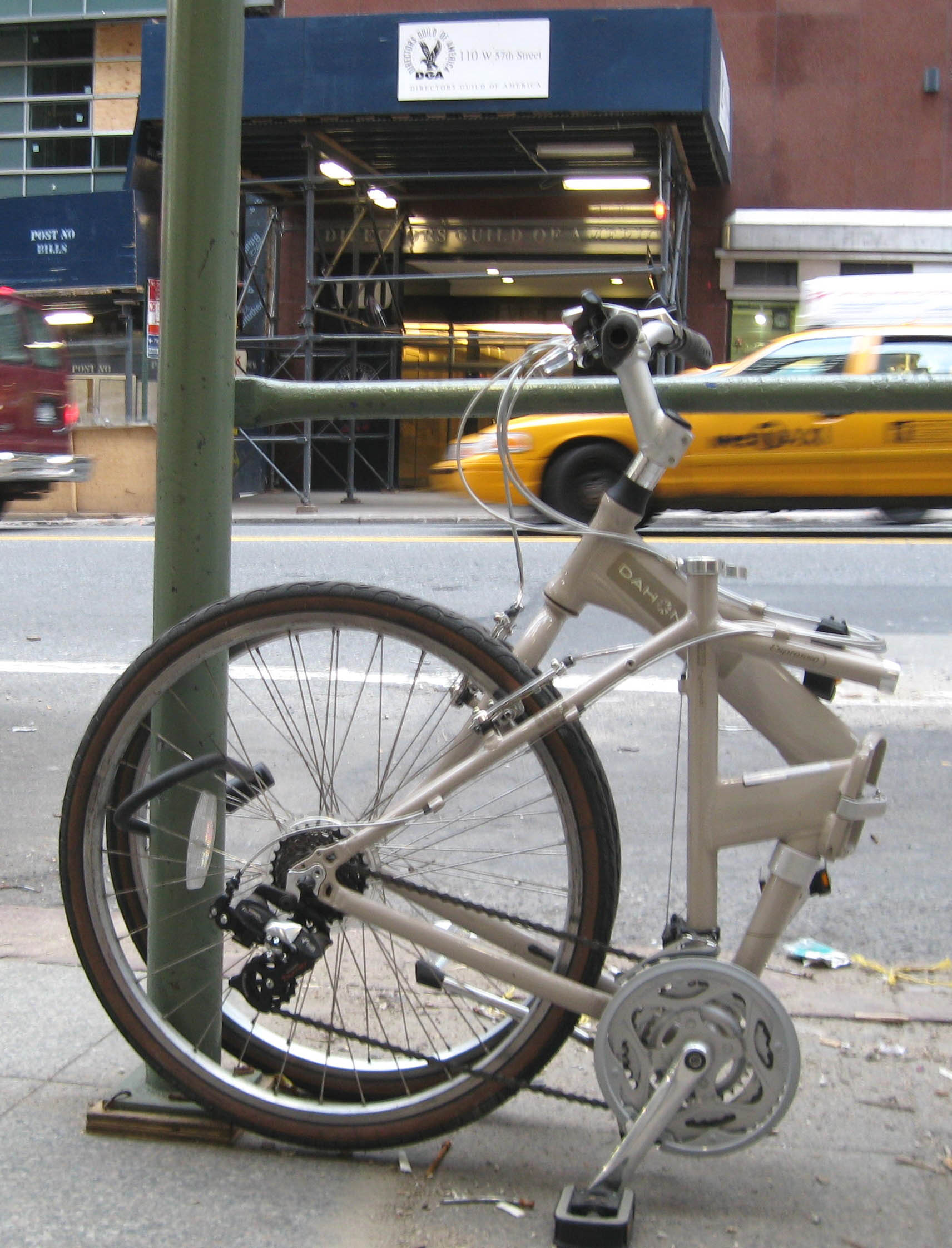 Looking south at Dahon Espresso folded and locked to scaffolding on West en:57th Street with Directors Guild of America theater in background.